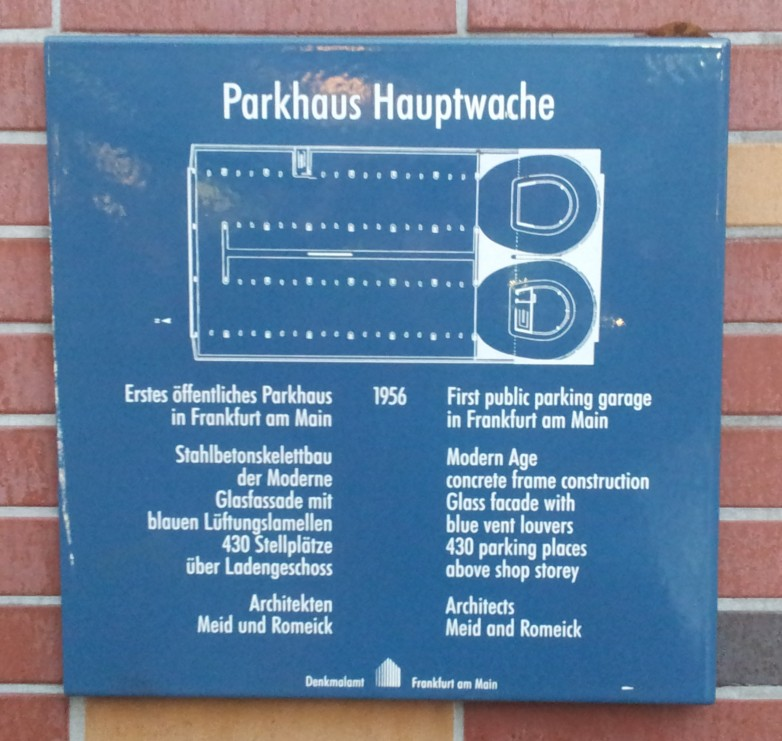 Information sign from the Antiquities and Monuments Office of the city of Frankfurt am Main, attached at the parking lot Hauptwache.